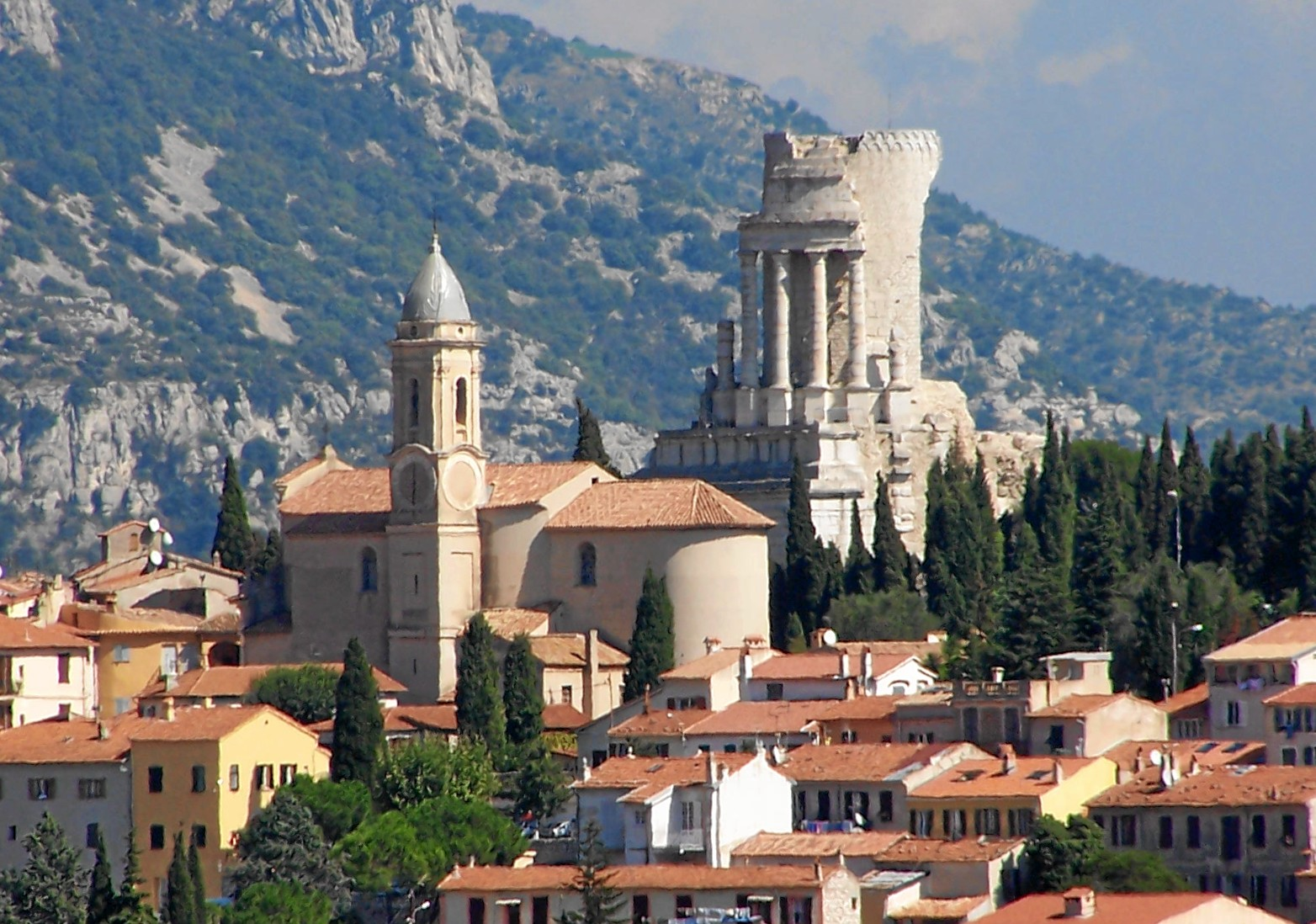 La Turbie in the South of France